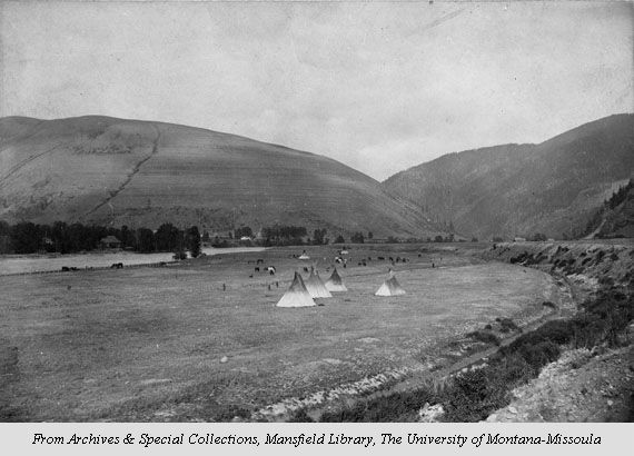 Long before Missoula City was established at the base of Mount Jumbo native peoples inhabited the area.